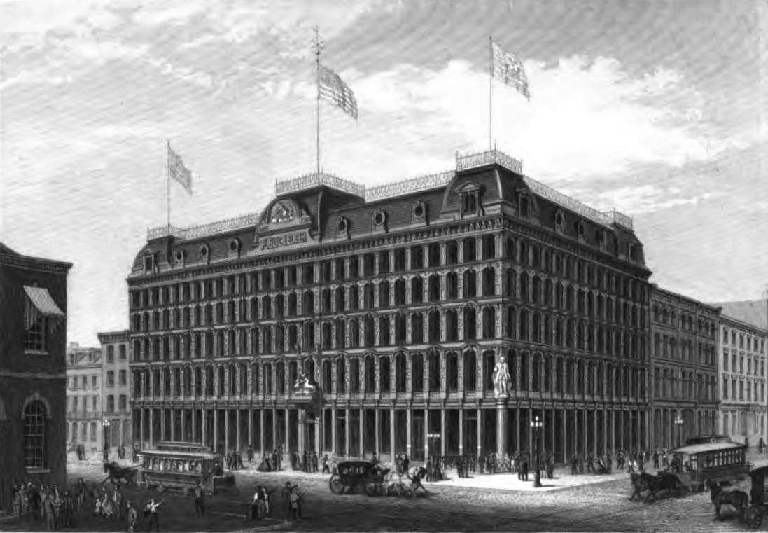 Etching of the headquarters building of the Philadelphia Public Ledger Newspaper as it appeared when it opened on 20 June, 1867